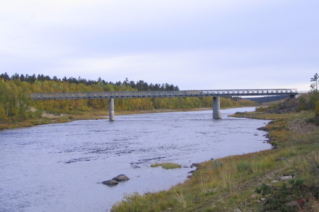 Bridge of Kuttura over Ivalo River in Inari municipality, Finland